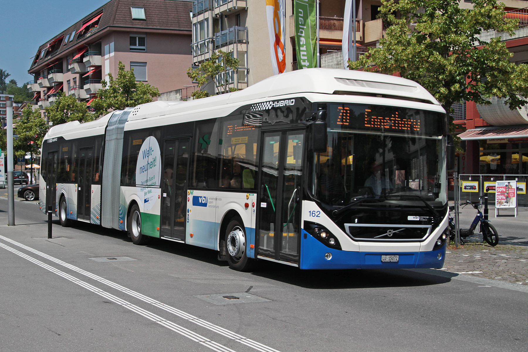 Verkehrsbetriebe Luzern's Volvo 7900A Hybrid No 162 in Horw, Switzerland